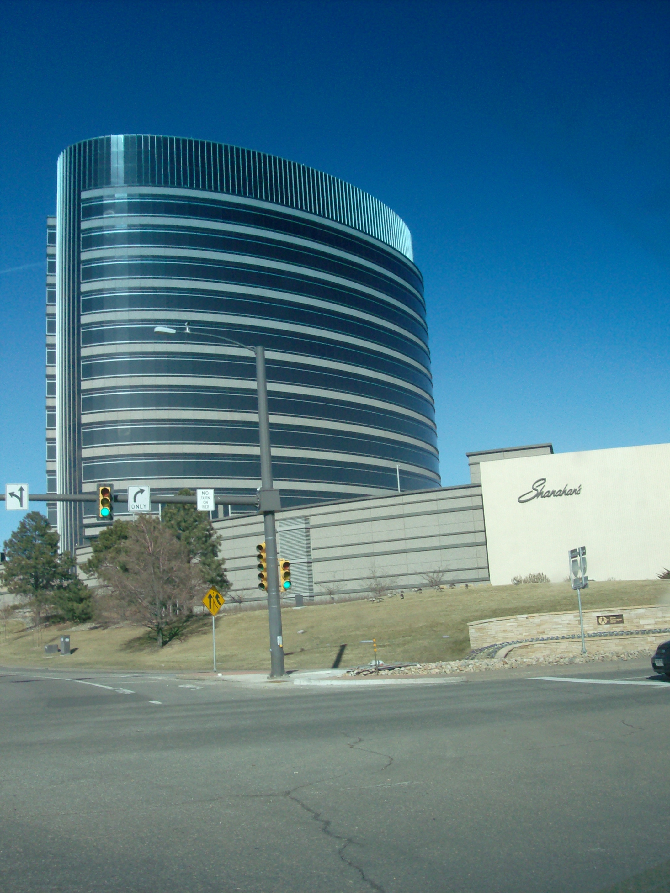 RE/MAX Headquarters in the Denver Tech Center